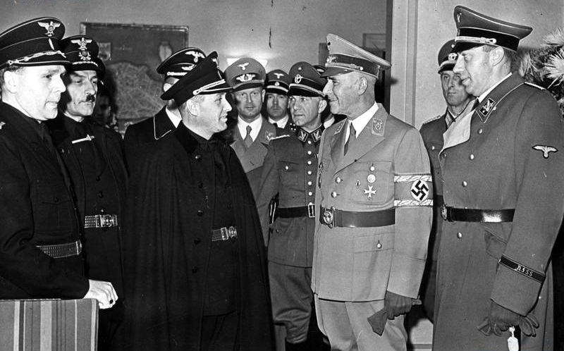 Slovak interior minister Alexander Mach (third from left) and German interior minister Wilhelm Frick (second from right).